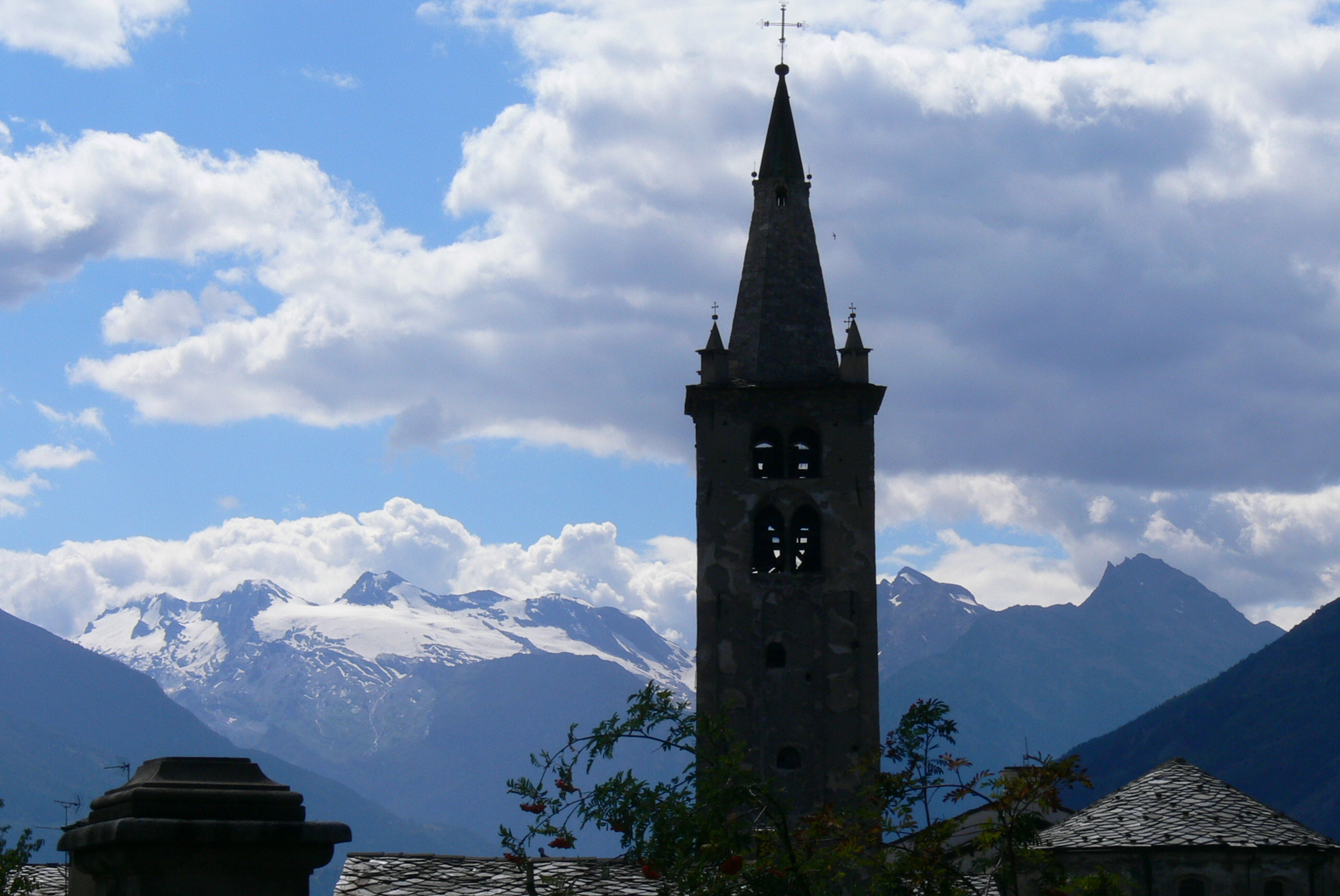 Cathedral (Aosta). Church tower with view to Chateau Blanc glacier.